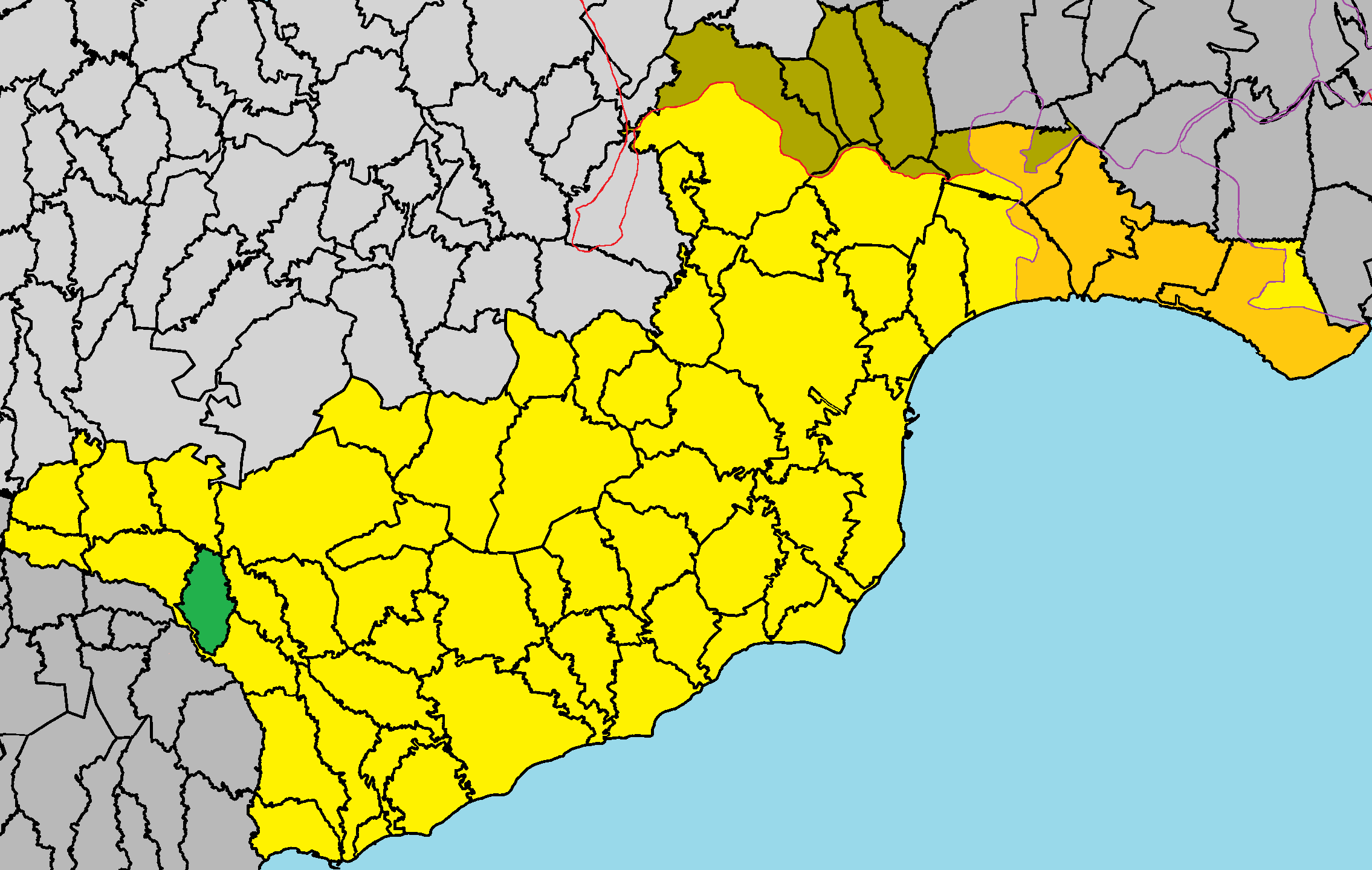 Lageia in Larnaca District.